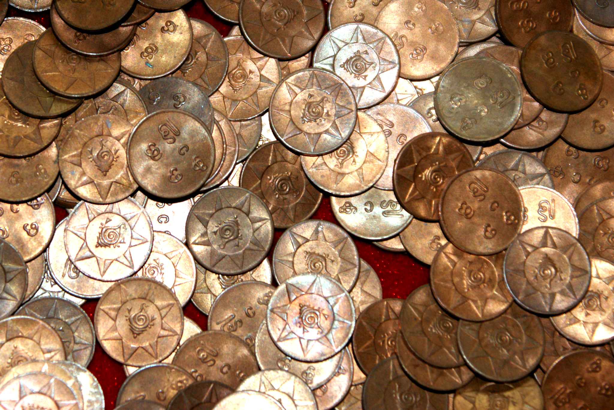 One Kasu, An old coin of kerala, south India